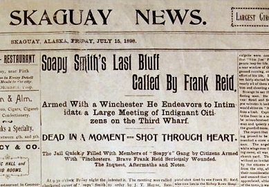 Skaguay News front page, July 15, 1898